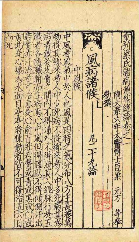 Page from the 'Zhubing Yuanhou Lun' ( 諸病源候論) by Chao Yuanfang (Chinese: 巢元方), published during the Yuan Dynasty